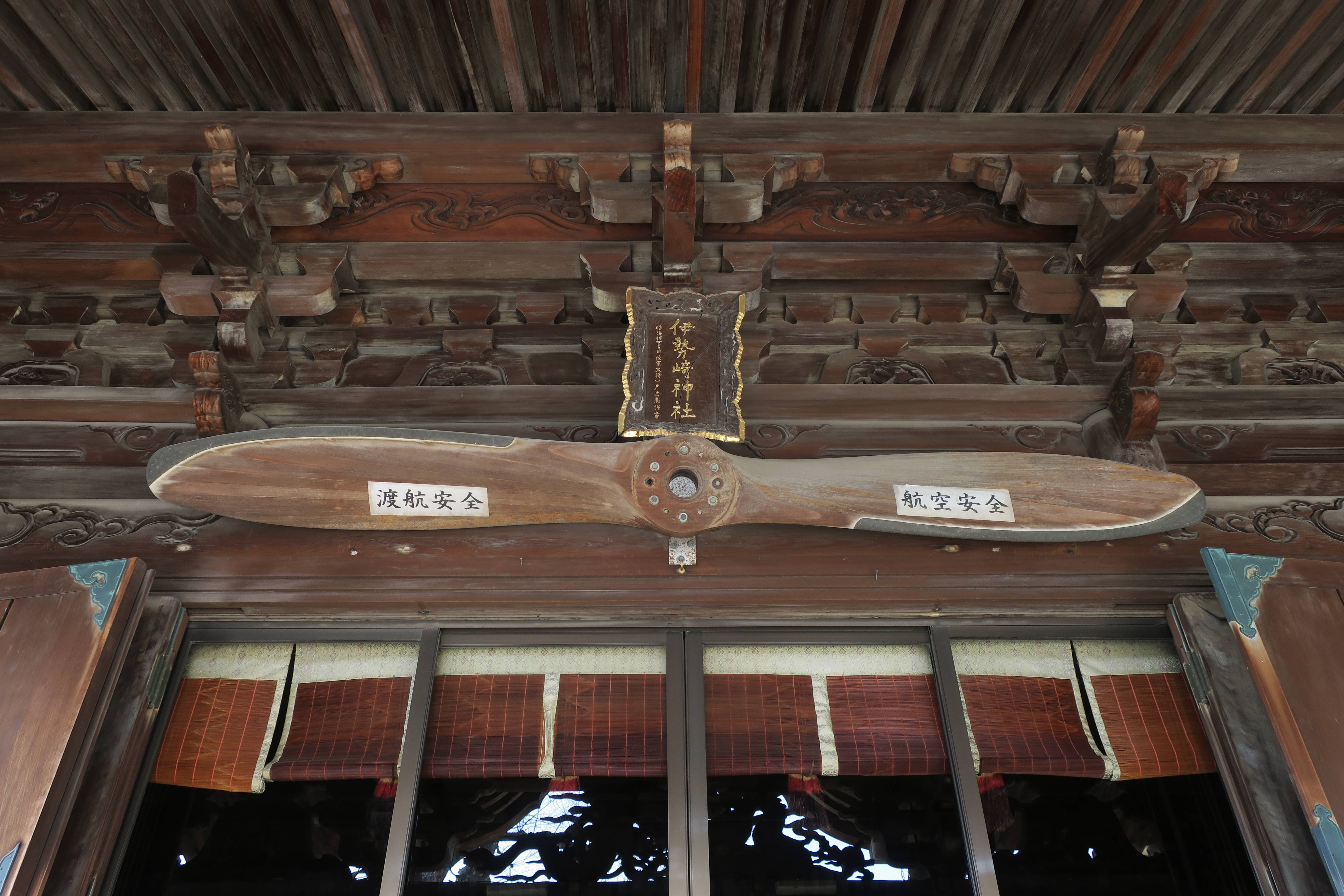 Isesaki-jinja (Isesaki, Gunma).